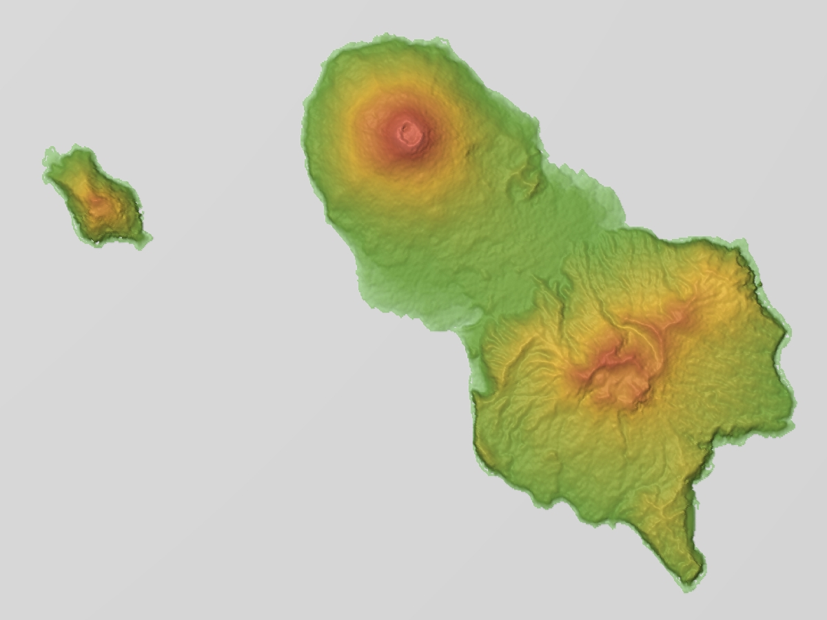 Hachijojima (large) and Hachijokojima (small) in Izu Islands, Tokyo, Japan.